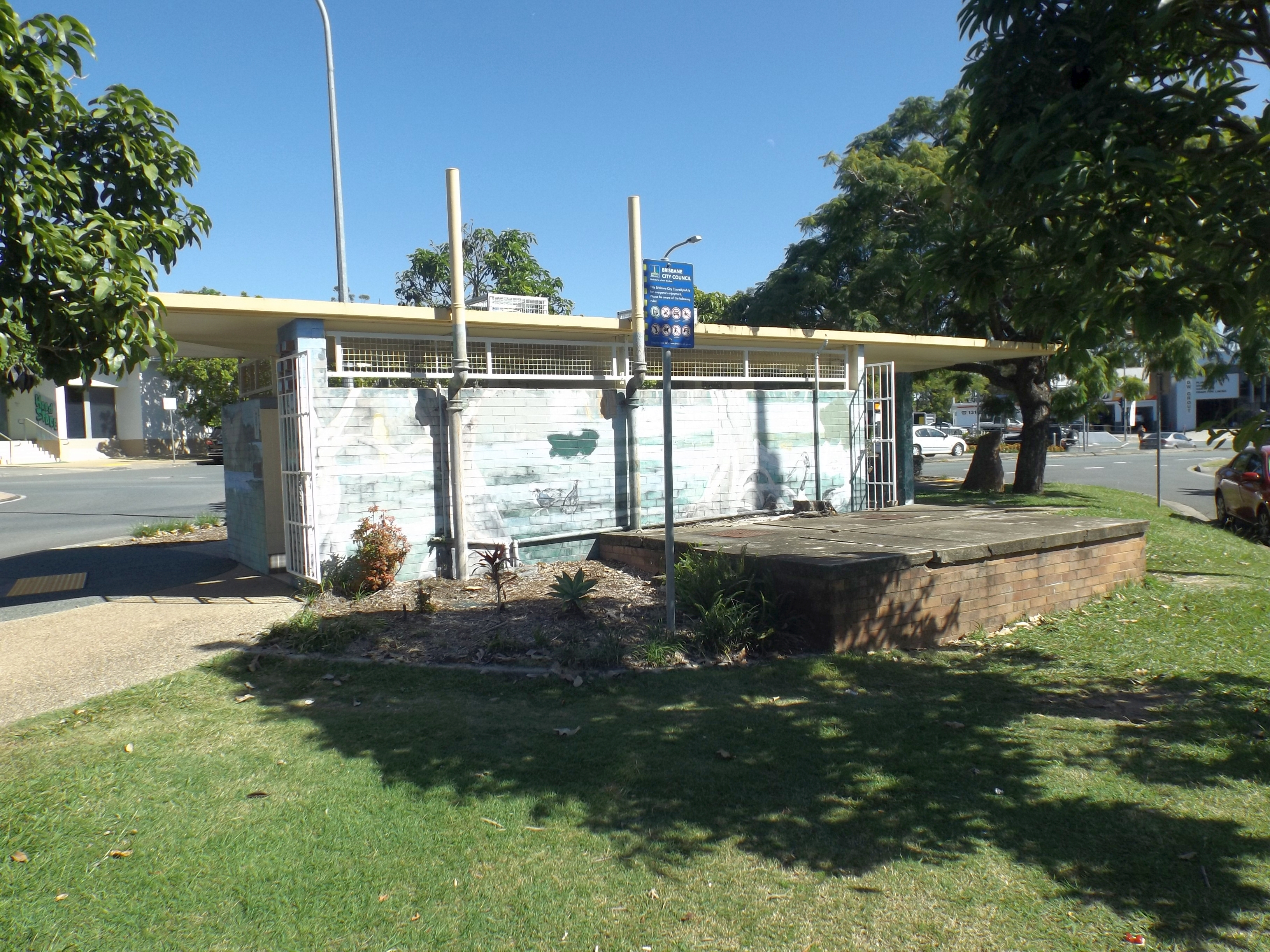 Photo of the Nundah Air Raid Shelter at Nundah, Brisbane, Queensland, Australia. The structure is now a public toilet.